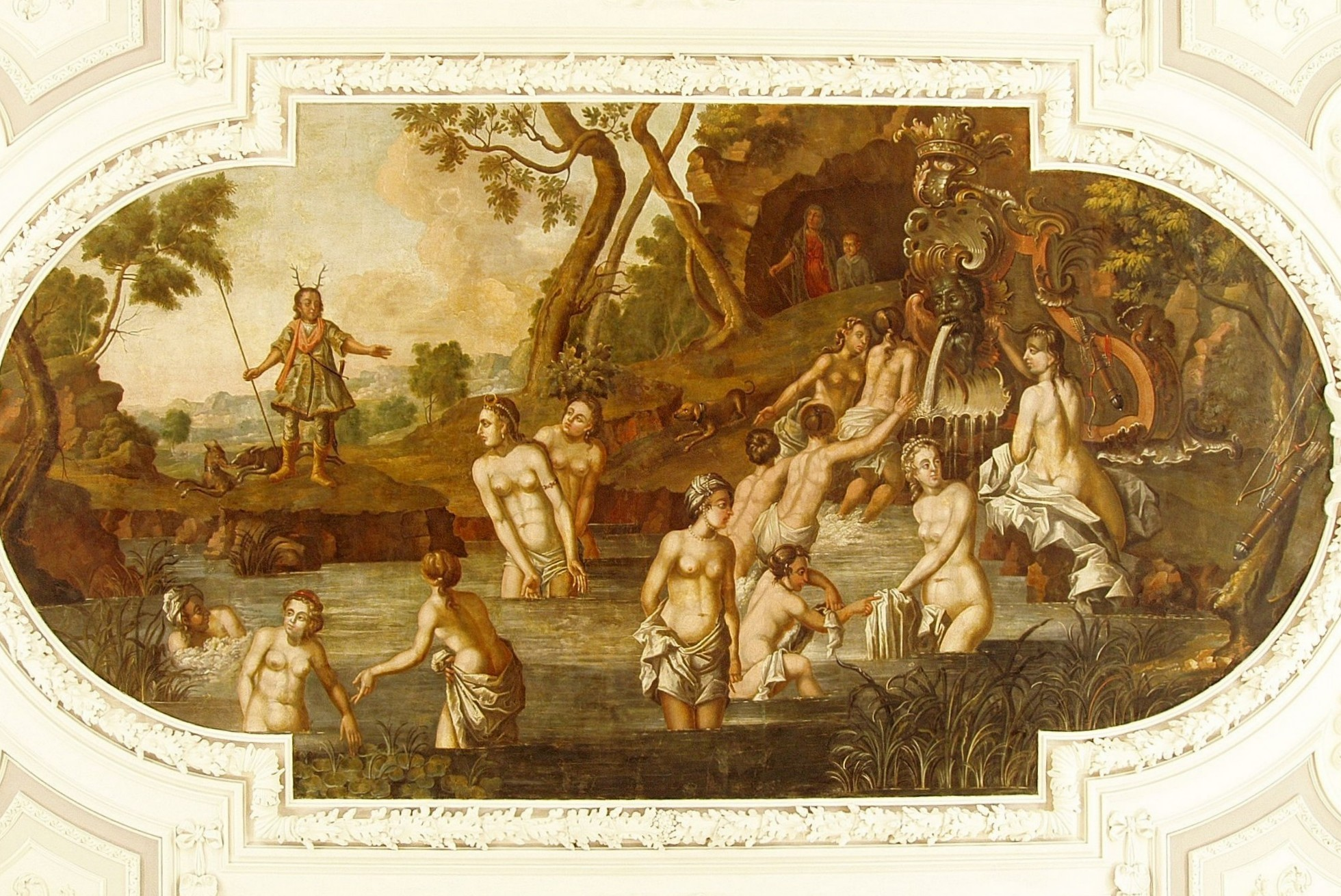 Painting from Kadriorg Palace